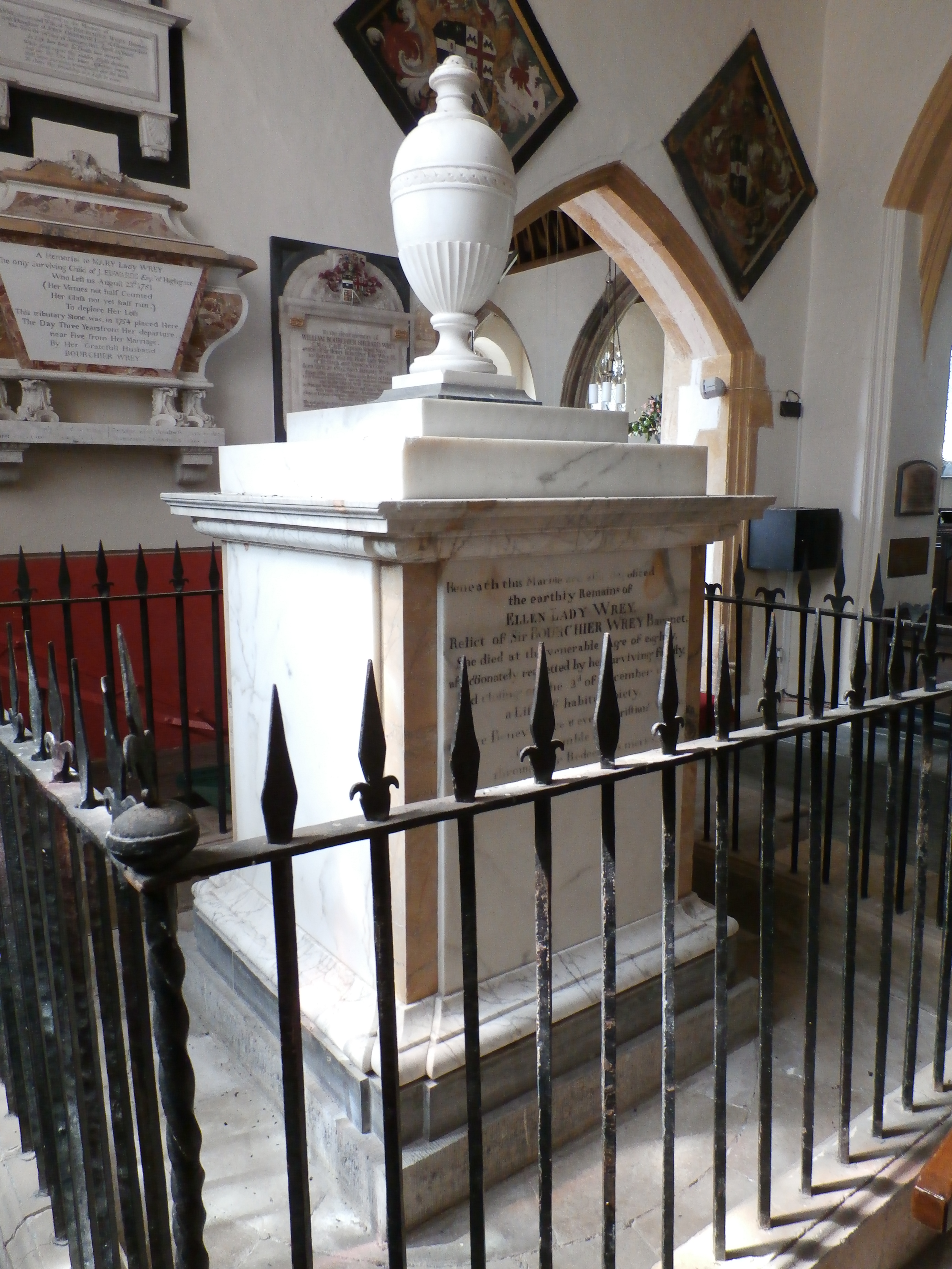 1784 monument to Sir Bourchier Wrey, 6th Baronet (c. 1715-1784), Tawstock Church, Devon. Inscribed: "Sacred To the Memory of Sir Bourchier Wrey of Tawstock House In the County of Devon Bart Descended from Sir Chichester Wrey Bart Of Trebeigh in the County of Cornwall By Ann wife Wife Daughter and Coheiress Of Edward Bourchier Earl of Bath And Lord Fitz-warine, and relict of James Earl of Middlesex. He was chosen in 1748 to represent in Parliament the Borough of Barnstaple And was nineteen Years Colonel of the North-Devon Regiment of Militia He departed this Life April 13th 1784 Aged 69 Years Sir Bourchier Wrey was twice married First to Mary daughter of John Edwards of Highgate Esqr By which Marriage there was no issue, Afterwards to Ellen Daughter & Coheiress of John Thresher Esqr of Bradford in the County of Wilts (By Whom he has left two Sons and four Daughters Bourchier, Bourchier William, Ellen, Dyonisia, Florentina, and Anna Maria) & who having surviv's him has caus'd This Monument to be erected As a Testimony of Her Respect and Affection. Beneath this Marble are also deposited the earthly Remains of Ellen Lady Wrey, Relict of Sir Bourchier Wrey Baronet, She died at the venerable Age of eighty, affectionately regretted by her surviving family, and closing on the 2d of December 1813, a Life of habitual piety, active Benevolence & every christian Virtue, in the humble hope, through her Redeemers merits. Immortality"